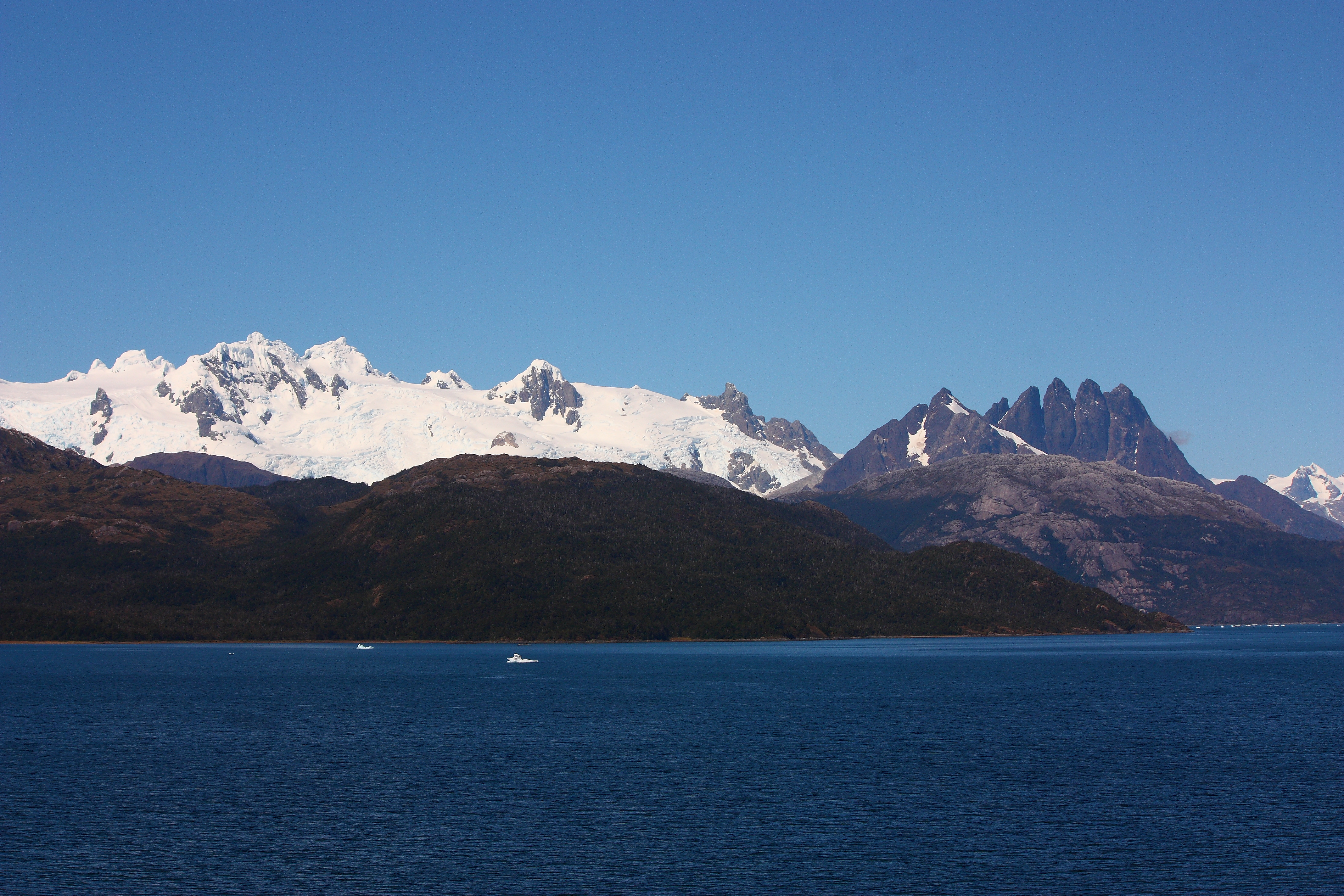 Cerro Mano del Diablo (Devil's Hand Mountain) in the distance, Chile.